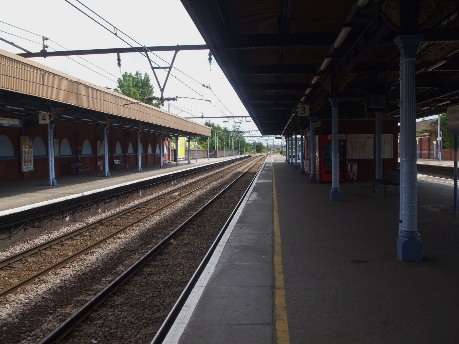 Goodmayes station slow platforms looking east